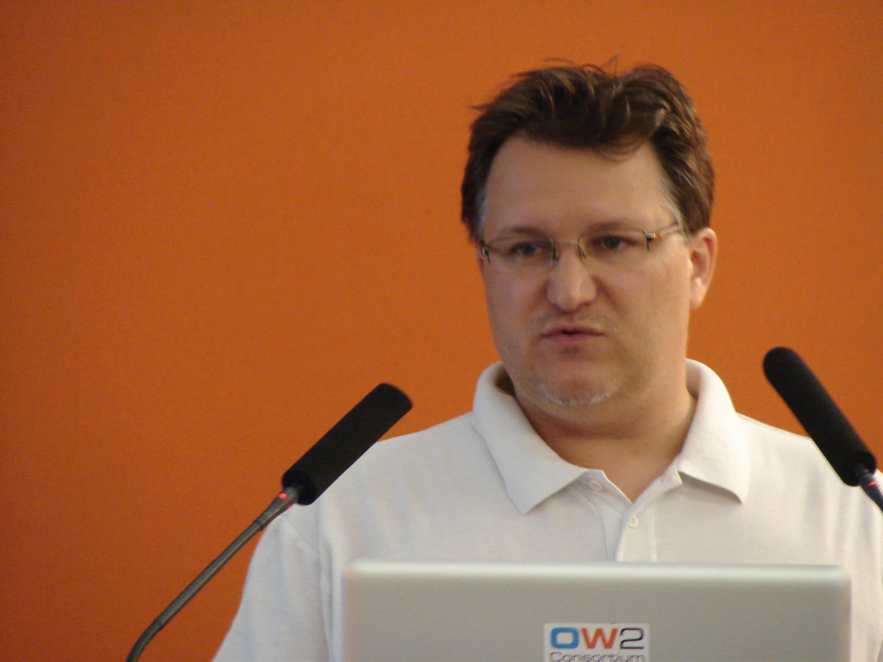 Ludovic Dubost, Xwiki founder